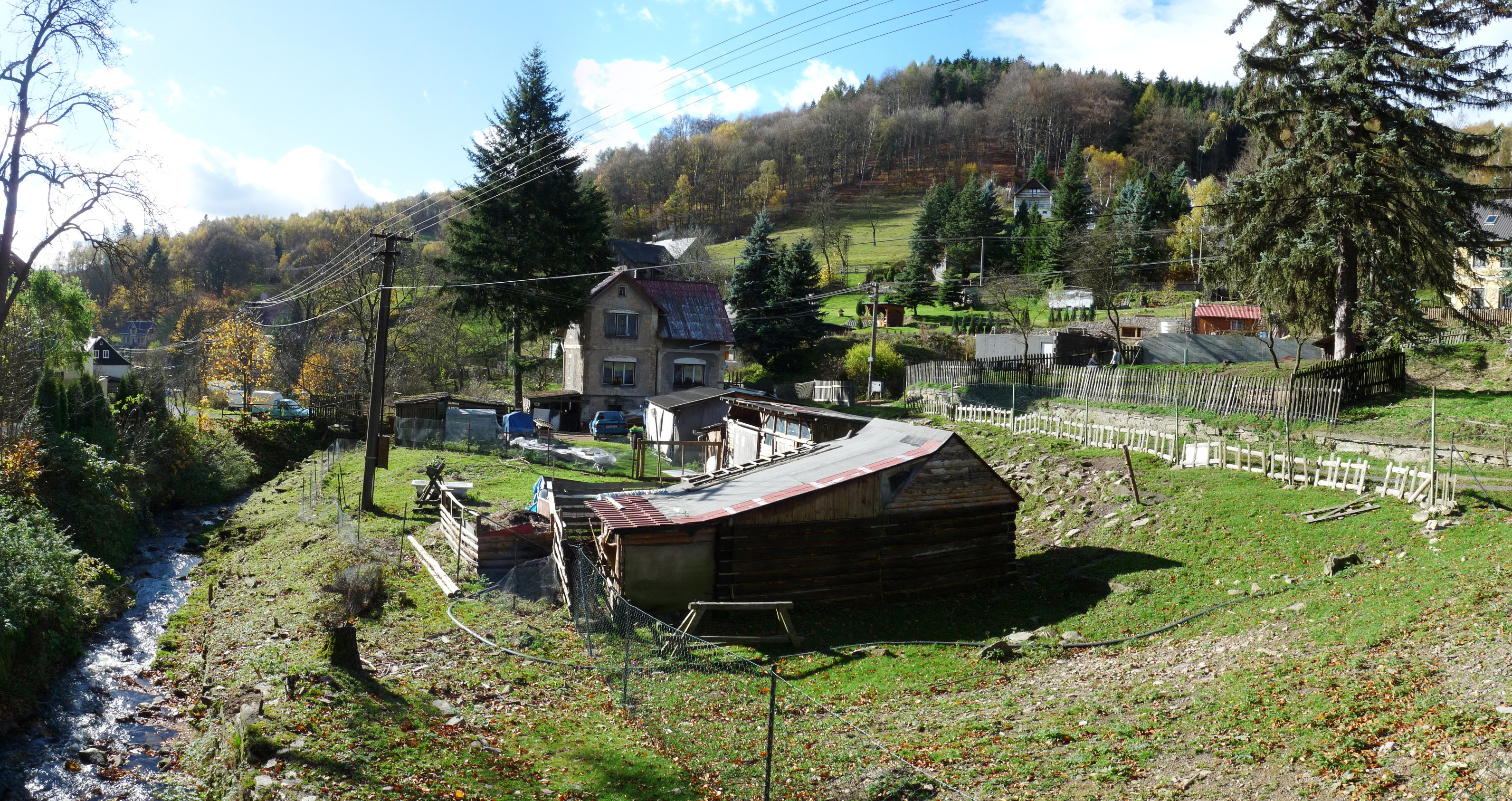 Údolíčko is a village near Perštejn, Chomutov District, Czech Republic